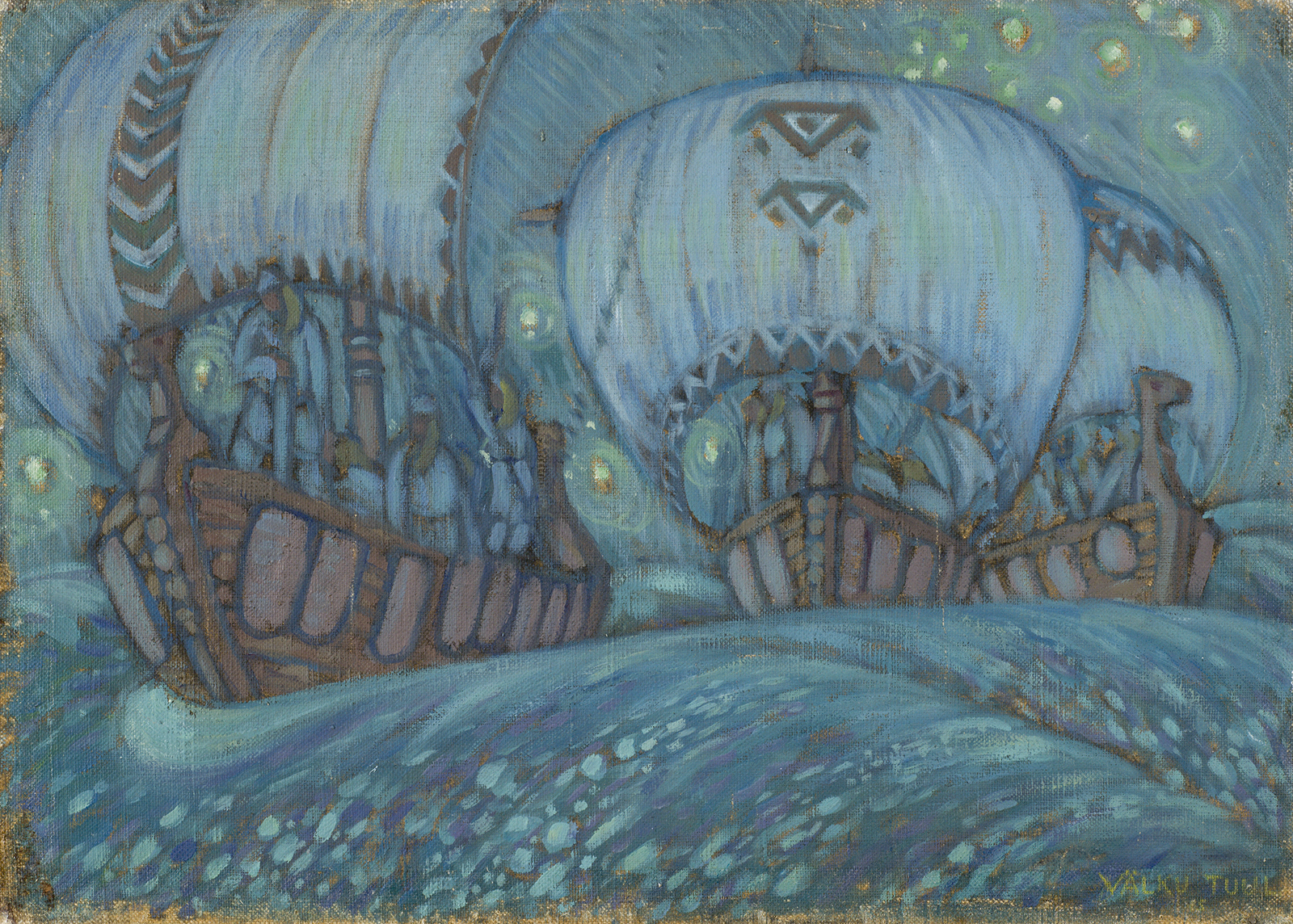 Välko Tuul. Viking Ships. 1915. Oil and tempera on canvas. EKM j 31651a M 5942a.